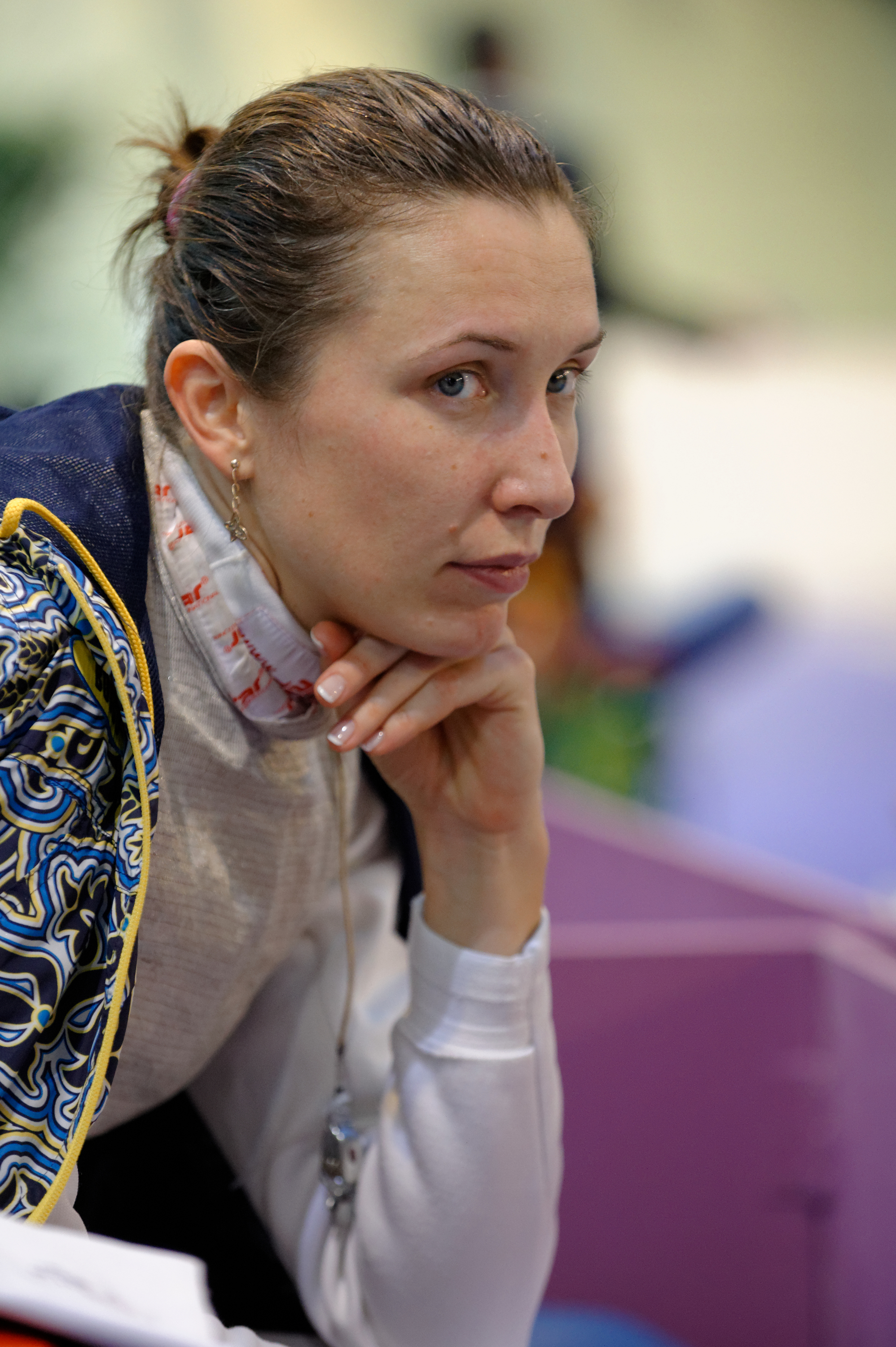 Ukraine's Olha Leleyko at the Saint-Maur Women's Foil World Cup.